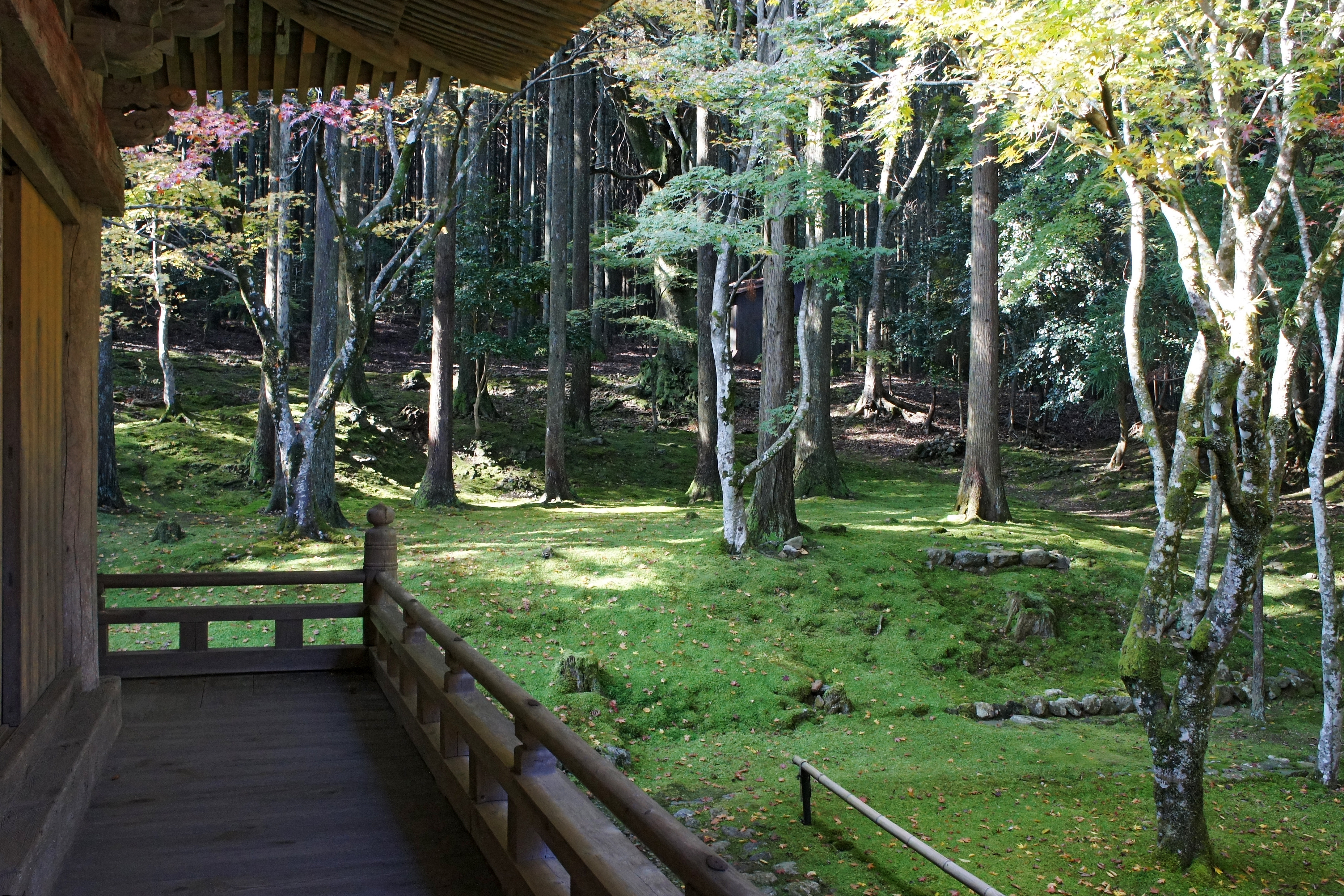 Jingu-ji in Obama, Fukui prefecture, Japan.